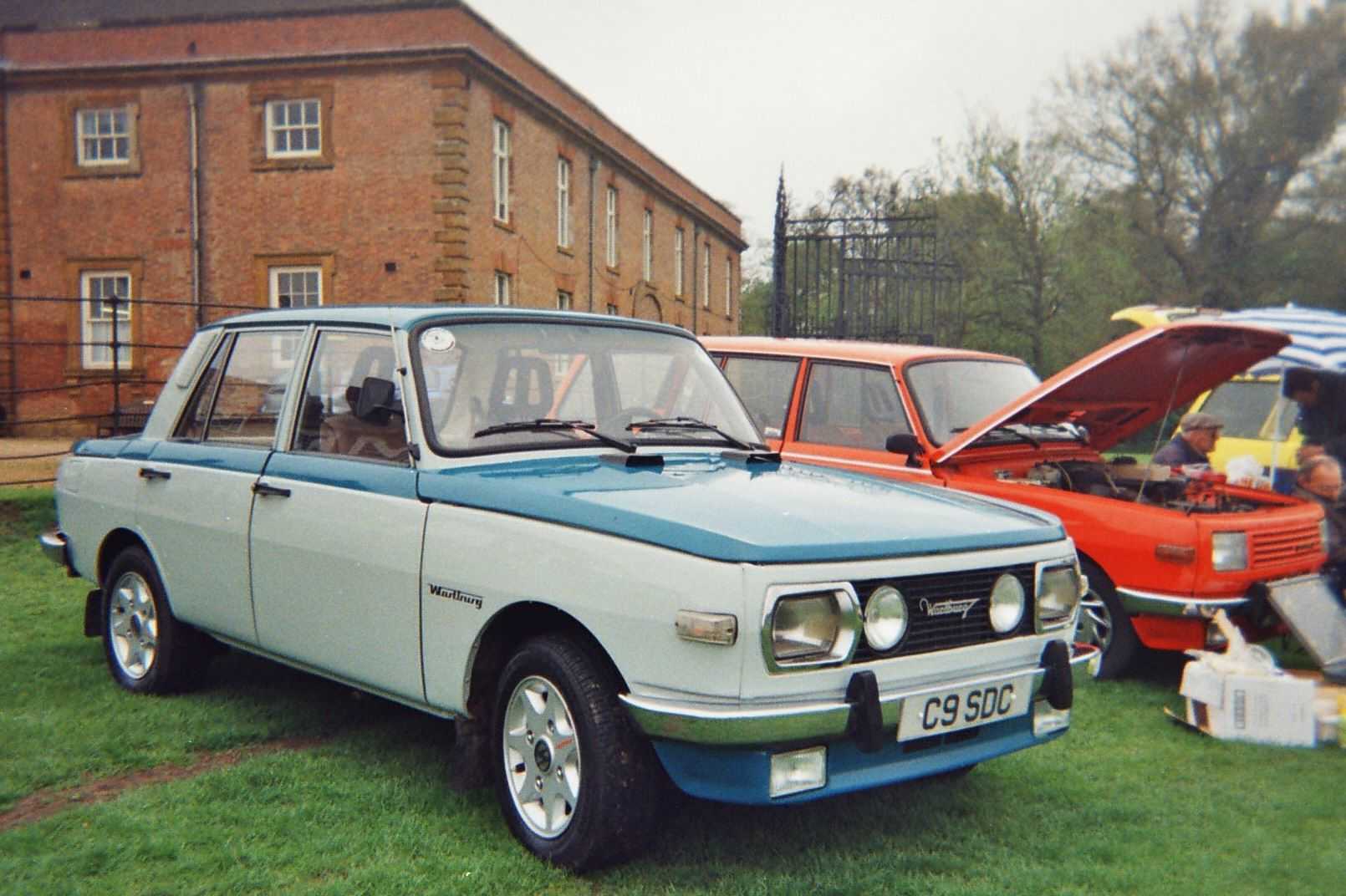 1988 Wartburg 353 (993cc) at Stanford Hall. Photo by